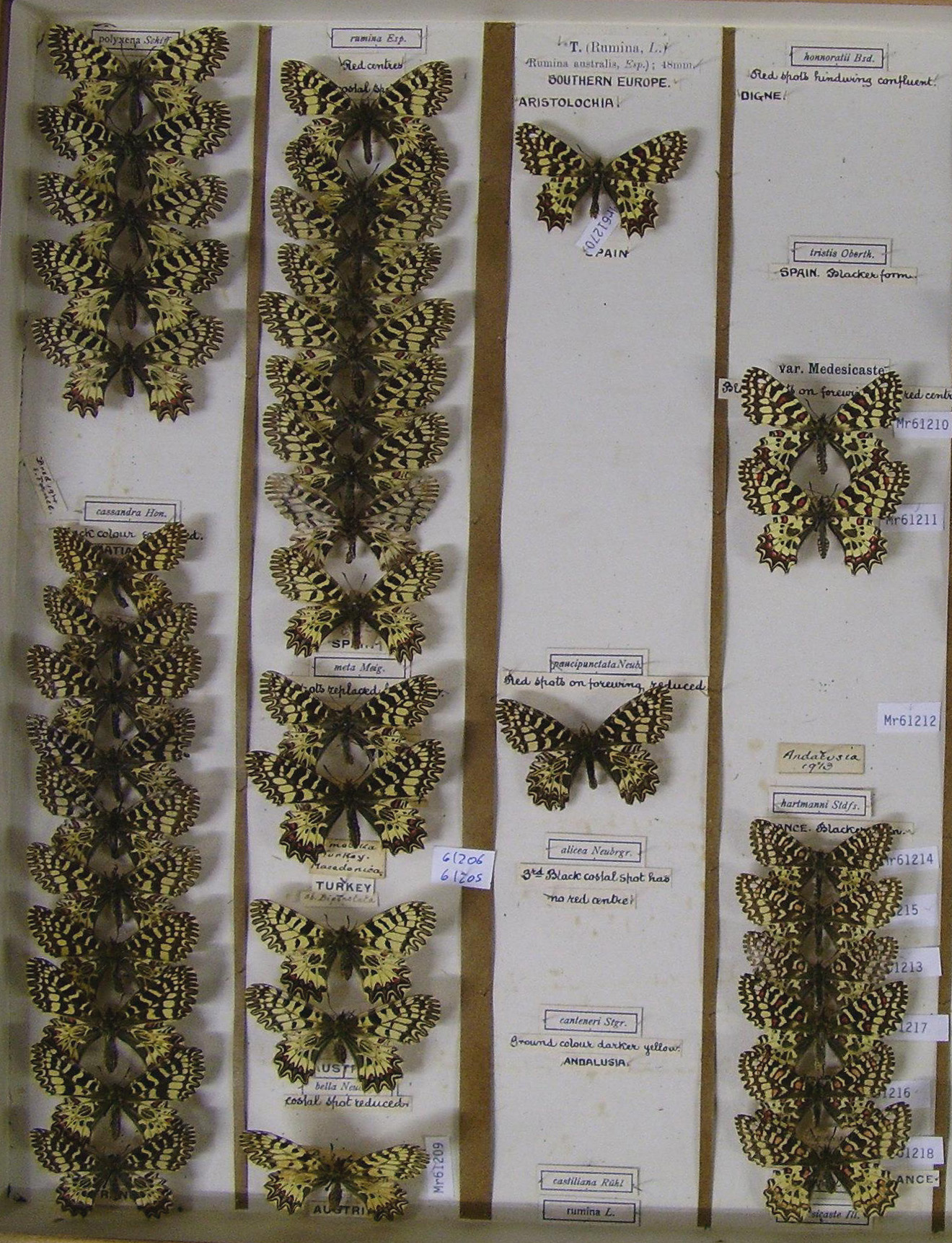 Museum specimens of Zerynthia